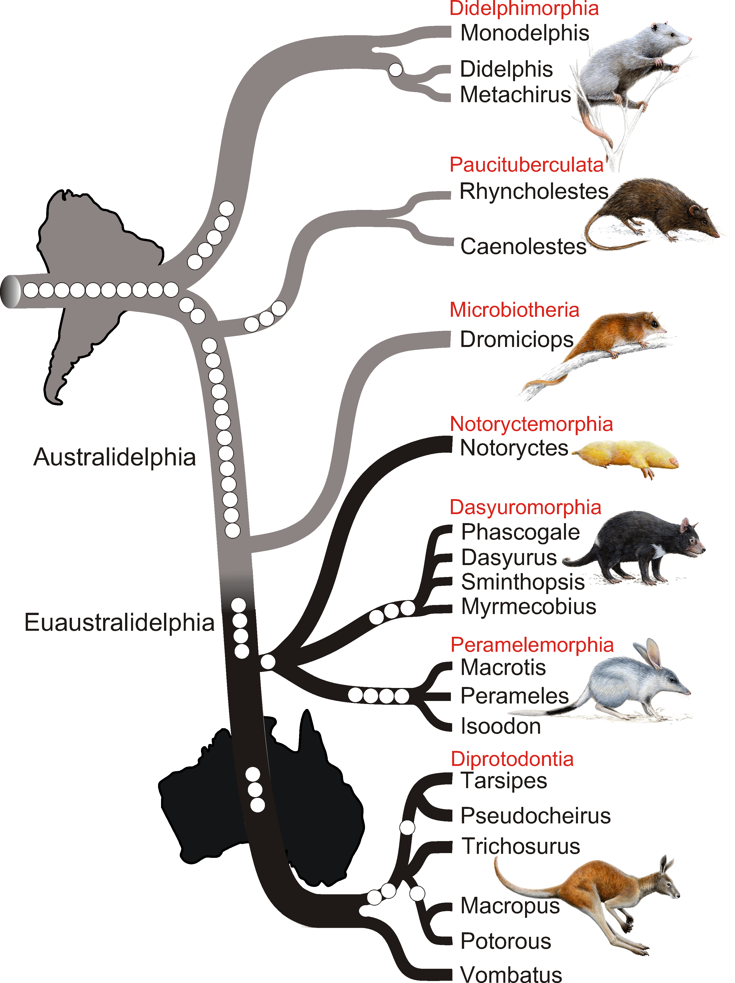 Phylogenetic tree of marsupials derived from retroposon data. The tree topology is based on a presence/absence retroposon matrix (Table 1) implemented in a heuristic parsimony analysis (Figure S3). The names of the seven marsupial orders are shown in red, and the icons are representative of each of the orders: Didelphimorphia, Virginia opossum; Paucituberculata, shrew opossum; Microbiotheria, monito del monte; Notoryctemorphia, marsupial mole; Dasyuromorphia, Tasmanian devil; Peramelemorphia, bilby; Diprotodontia, kangaroo. Phylogenetically informative retroposon insertions are shown as circles. Gray lines denote South American species distribution, and black lines Australasian marsupials. The cohort Australidelphia is indicated as well as the new name proposed for the four “true” Australasian orders (Euaustralidelphia).